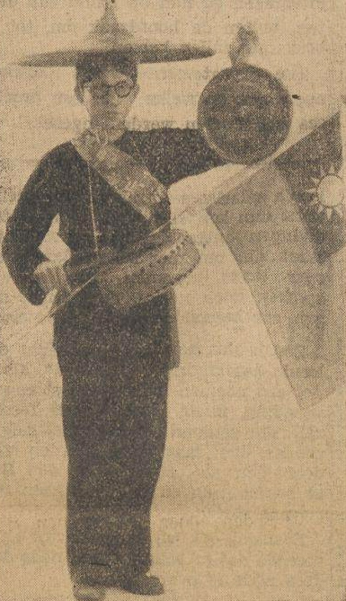 Social worker and activist Pah Wongso, dressing as a Chinese man to raise money to send aid to China during the Japanese occupation in 1938